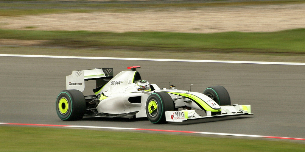 Jenson Button driving for Brawn GP at the 2009 German Grand Prix.